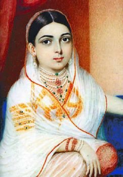 An oil painting of Khair-un-Nissa, a Hyderabadi Sayyida noblewoman and wife of James Achilles Kirkpatrick (1764-1819), Lieutenant Colonel in the British East India company and it's resident in the princely state of Hyderabad from 1798 to 1805.